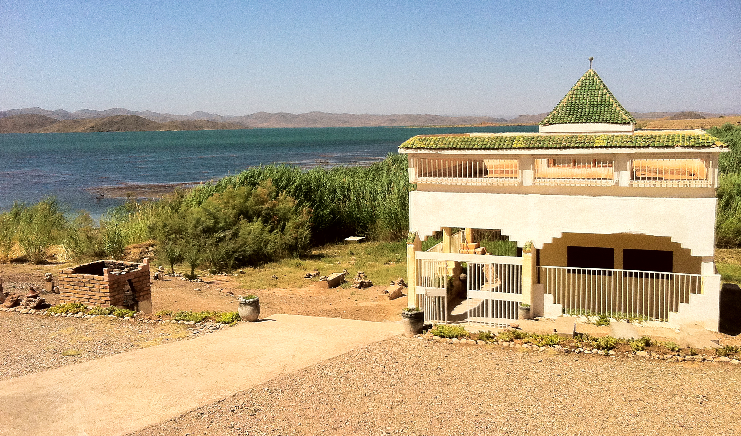 The grave of Rabbi Avraham Vazana